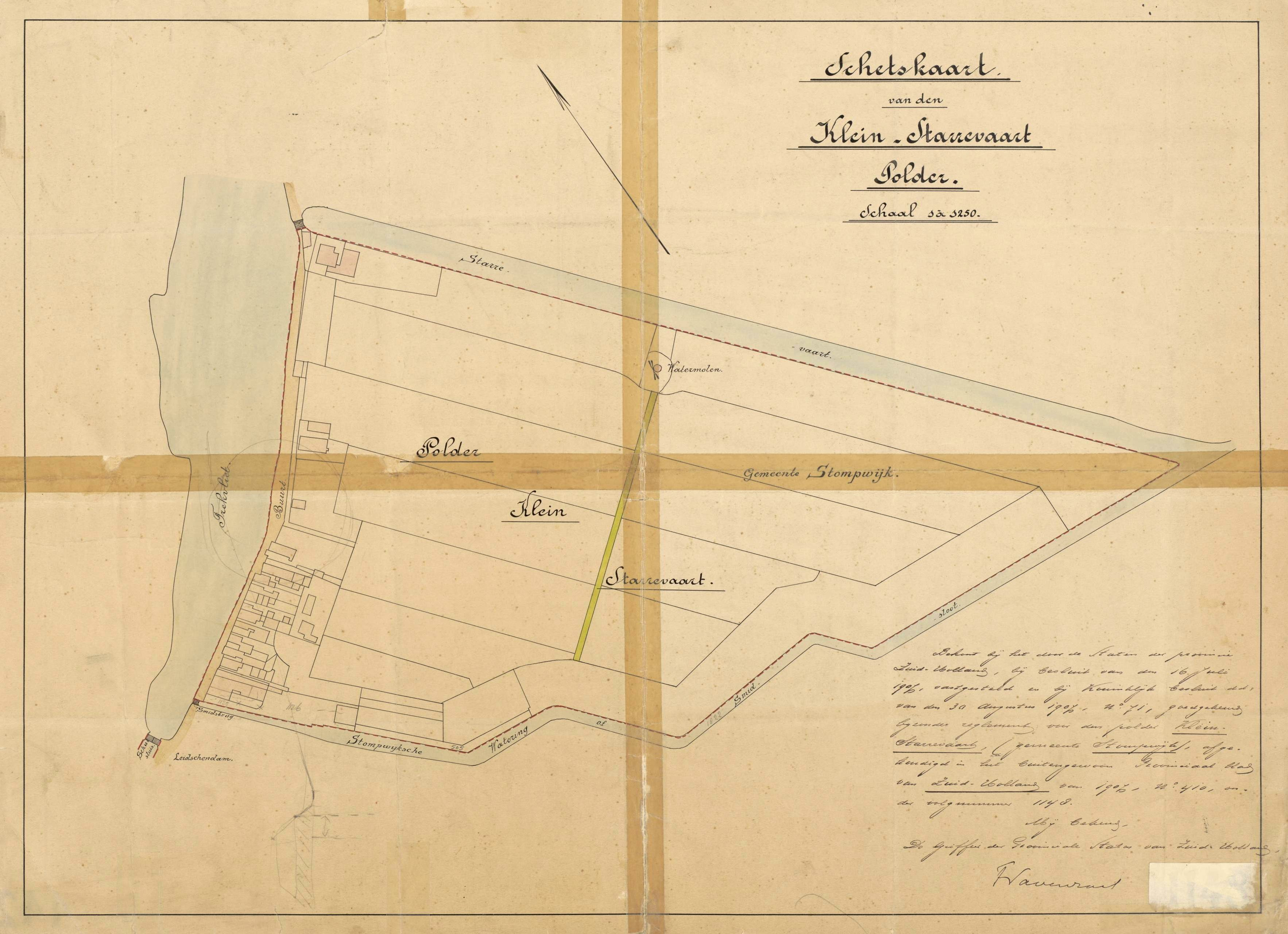 Map of 1907 of the polder Klein Starrevaart in Leidschendam (municipality of Leidschendam-Voorburg, Prov. of South Holland, Netherlands). In 1907 the polder was part of the municipality of Stompwijk. The map belongs to a set of official rules, drafted for the water management of the polder.